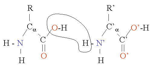 Two amino acids.